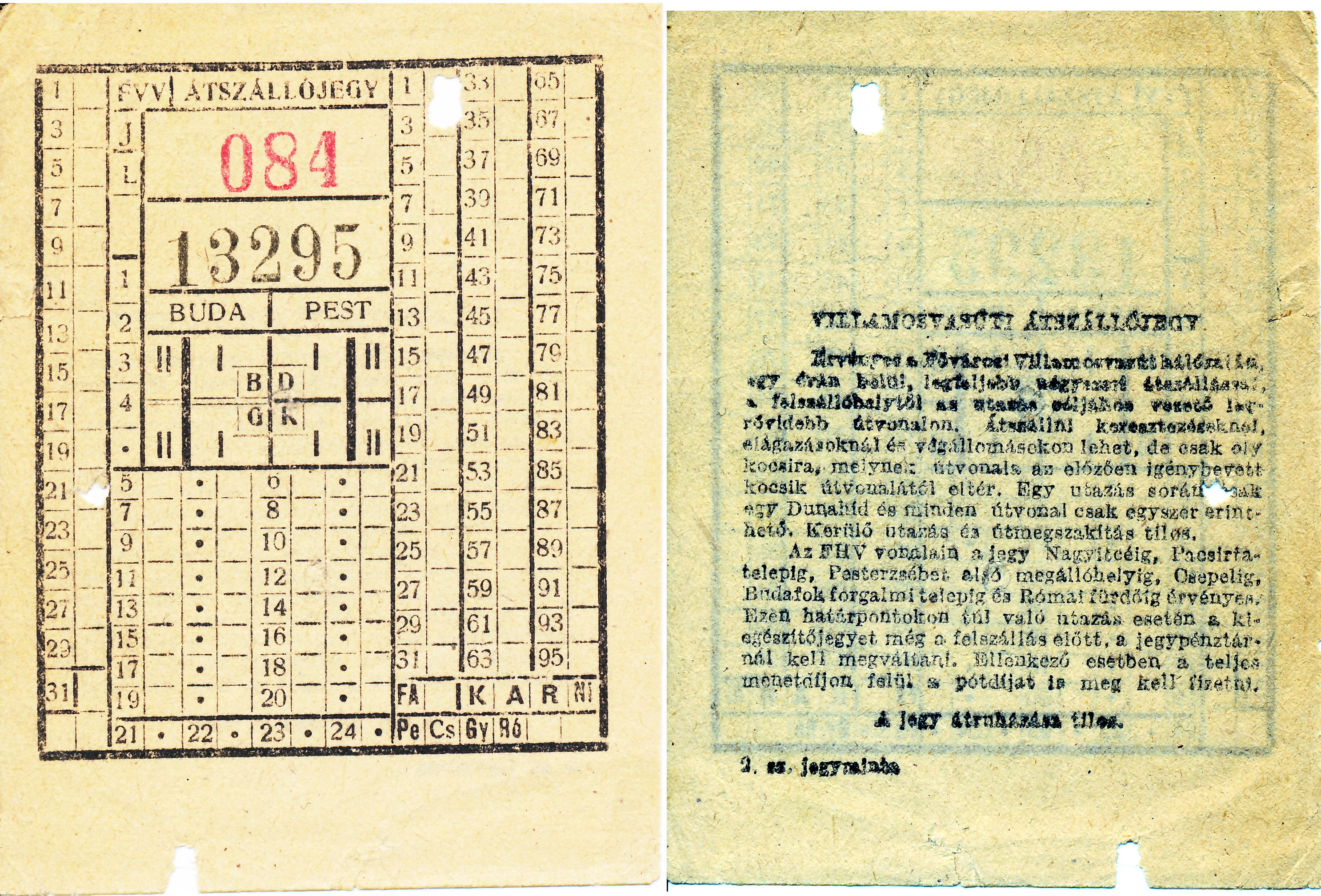 Budapester Tram Ticket from before 1968